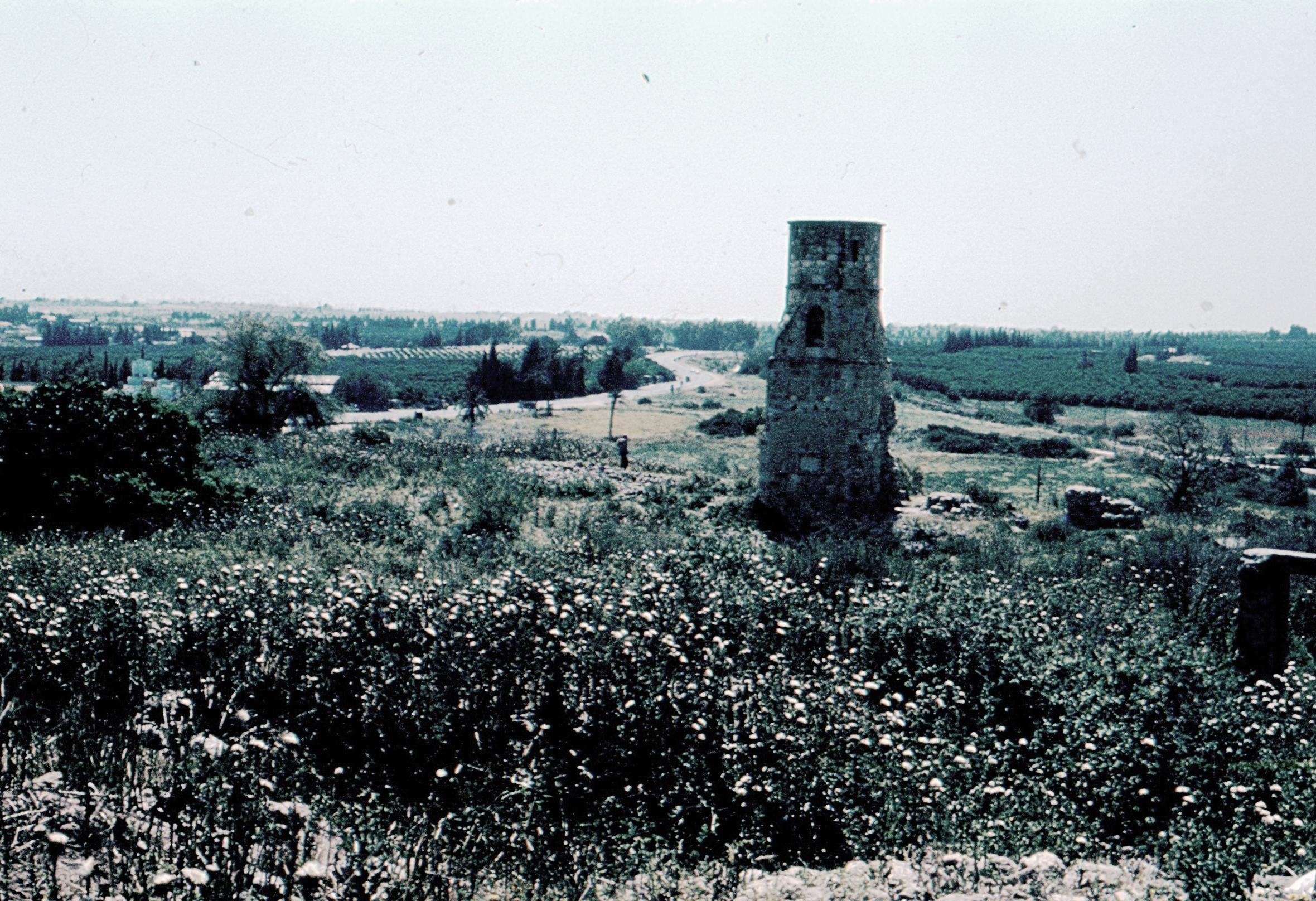 old javne